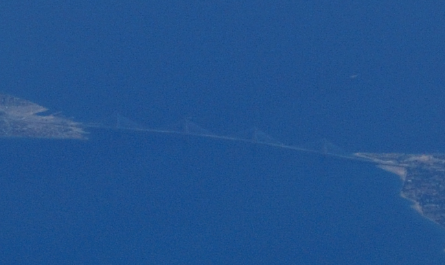 Rio-Antirio-Bridge